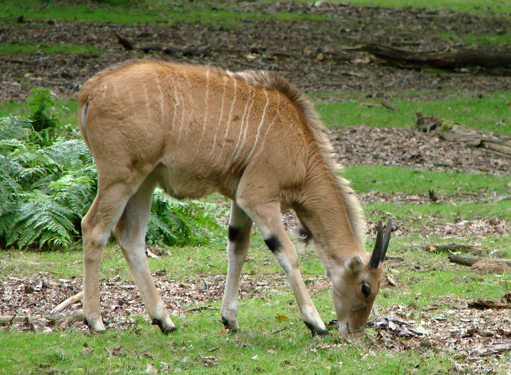 A young eland (Taurotragus oryx) in the Thoiry zoo.